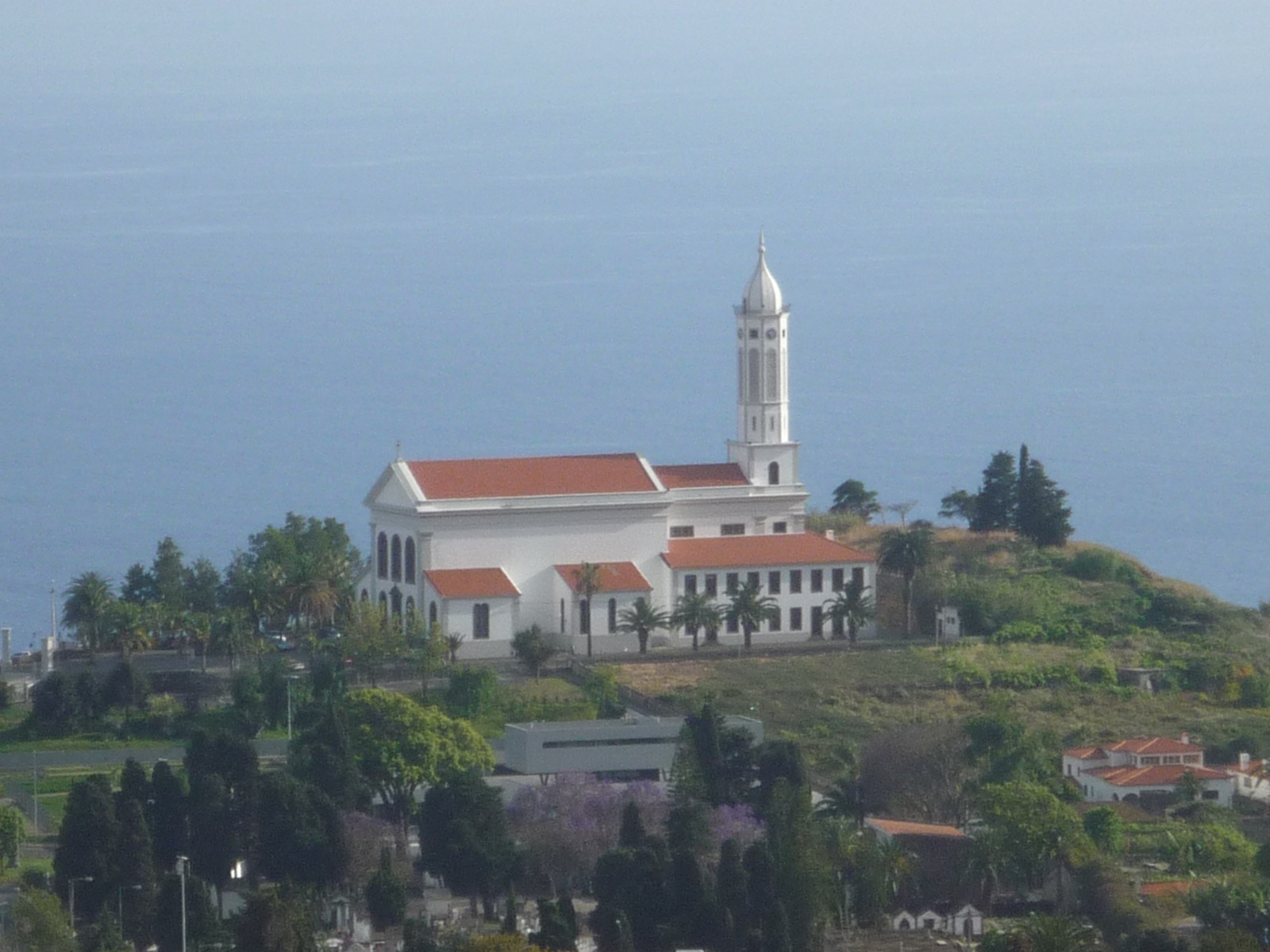 The previous church This church, dedicated to Saint Martin of Tours, is at 32°38′56″N 16°56′38″W / 32.649°N -16.944°E in Rua da Igreja, São Martinho, Funchal, Madeira. It is in a very prominent position on the summit of the Pico das Arrudas. It was built in 1927 to replace an older church which still stands nearby. (Entry on the diocesan website.) This view taken from the Pico dos Barcelos - 32°39′31″N 16°56′22″W / 32.6587°N -16.9394°E. The top of the Centro Cívico can be seen below the church and in the foreground are tombs in the church's cemetery.